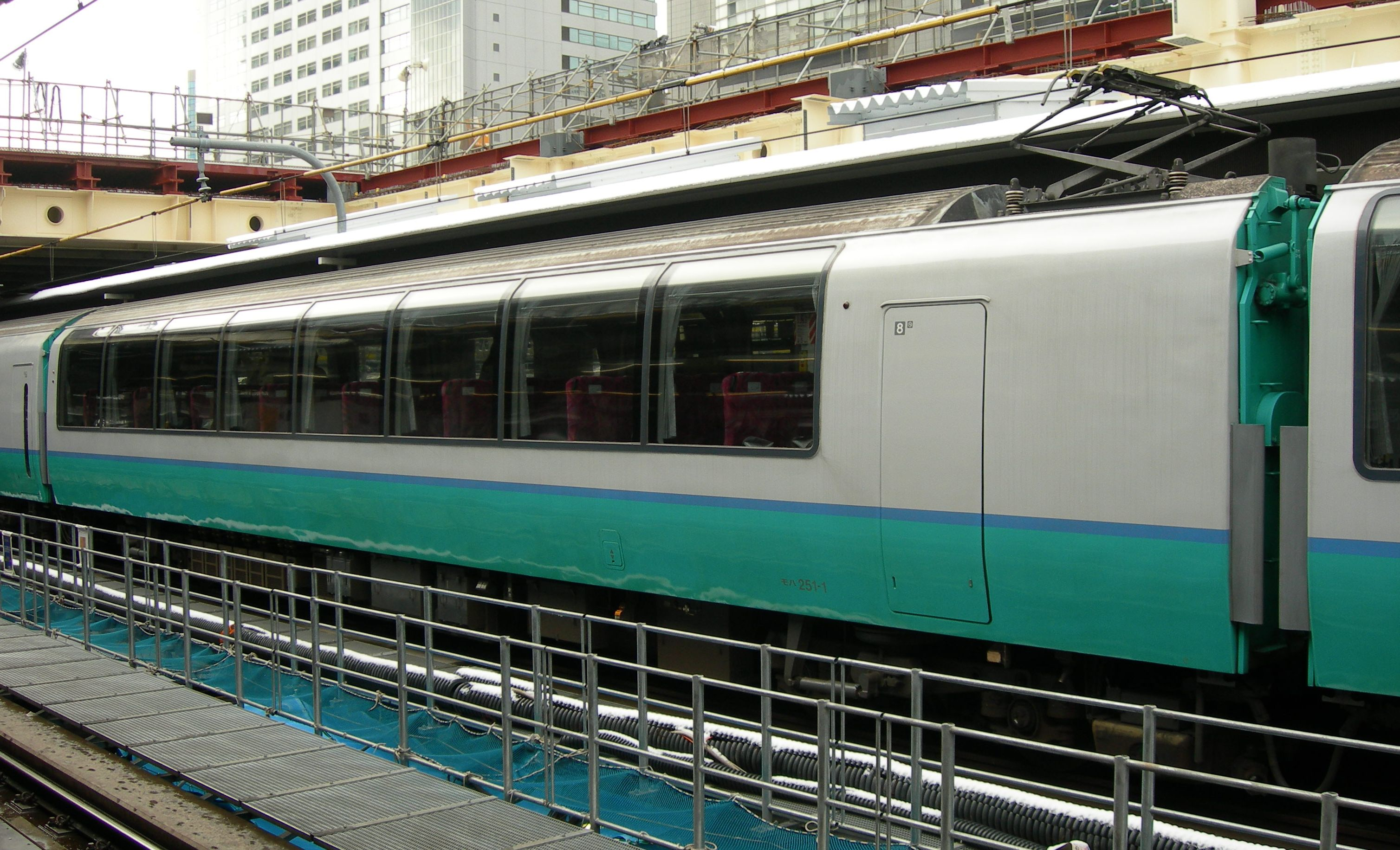 JR East 251 series EMU car MoHa 251-1 (car 8 of set RE1) at Shinjuku Station